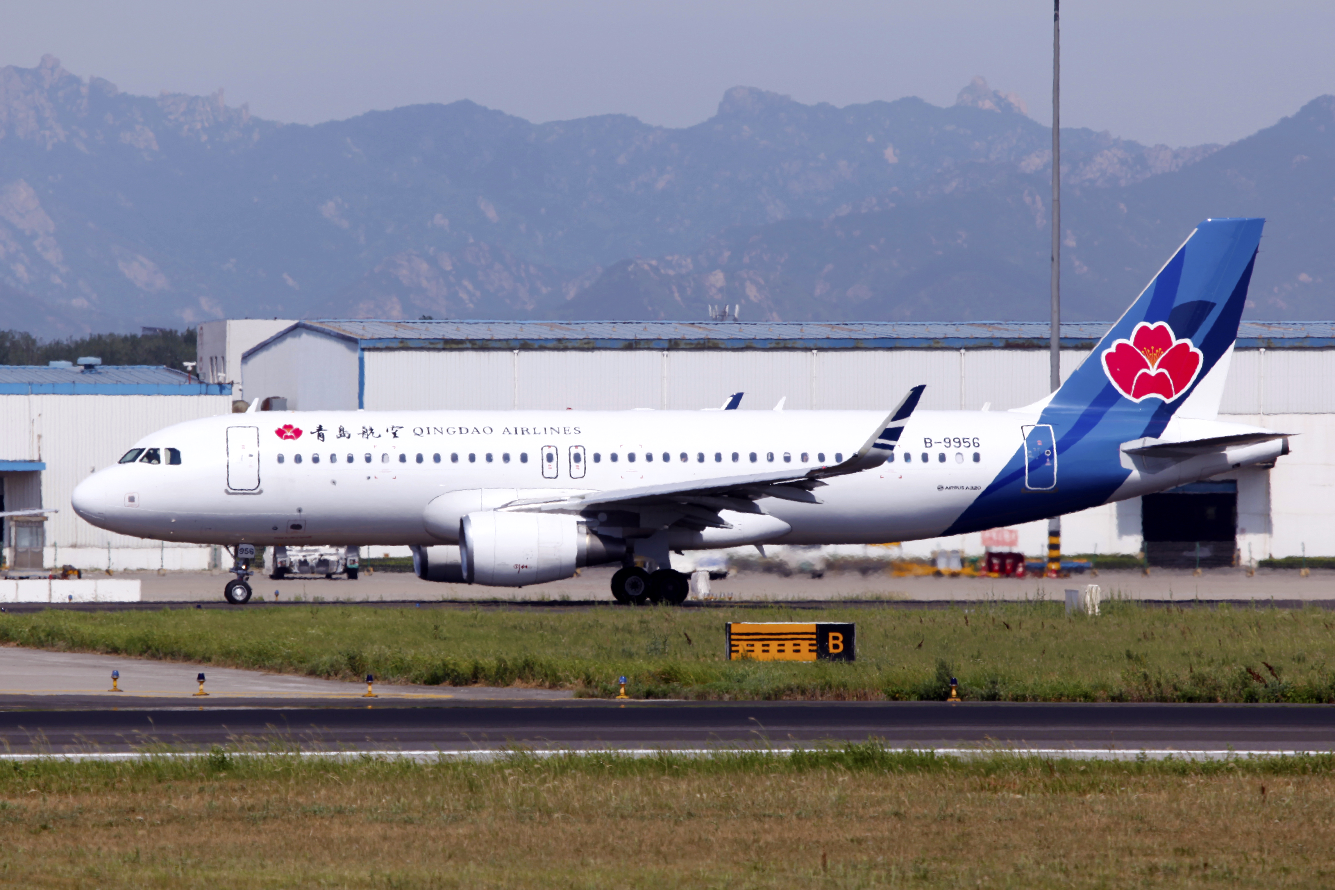 B-9956 | Qingdao Airlines | Airbus A320-214(WL) | Qingdao Liuting International Airport [TAO]